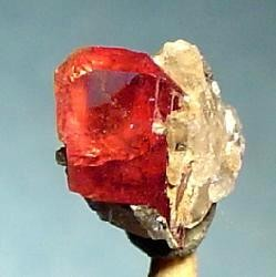 Nambulite Locality: Kombat Mine, Kombat, Grootfontein District, Otjozondjupa Region, Namibia (Locality at ) Size: 0.7 x 0.6 x 0.4 cm. An INCREDIBLY RARE, 5 mm, GEM, cherry-red nambulite crystal on a bit of matrix from the ONE-TIME find at the Kombat Mine in the early 1970s. Ex. John Barlow Collection. John bought a huge lot of this material when it came out in the one time find. I got these thumbnail crystals from his grandson about 5-6 years ago. I have NOT seen the material for sale in ANY quality or size since. It is so incredibly rare; most folks will never own any. This is small, but at least its pretty, and has crystal faces, and has gemminess....something even many small pieces do not. An ultimate rarity!